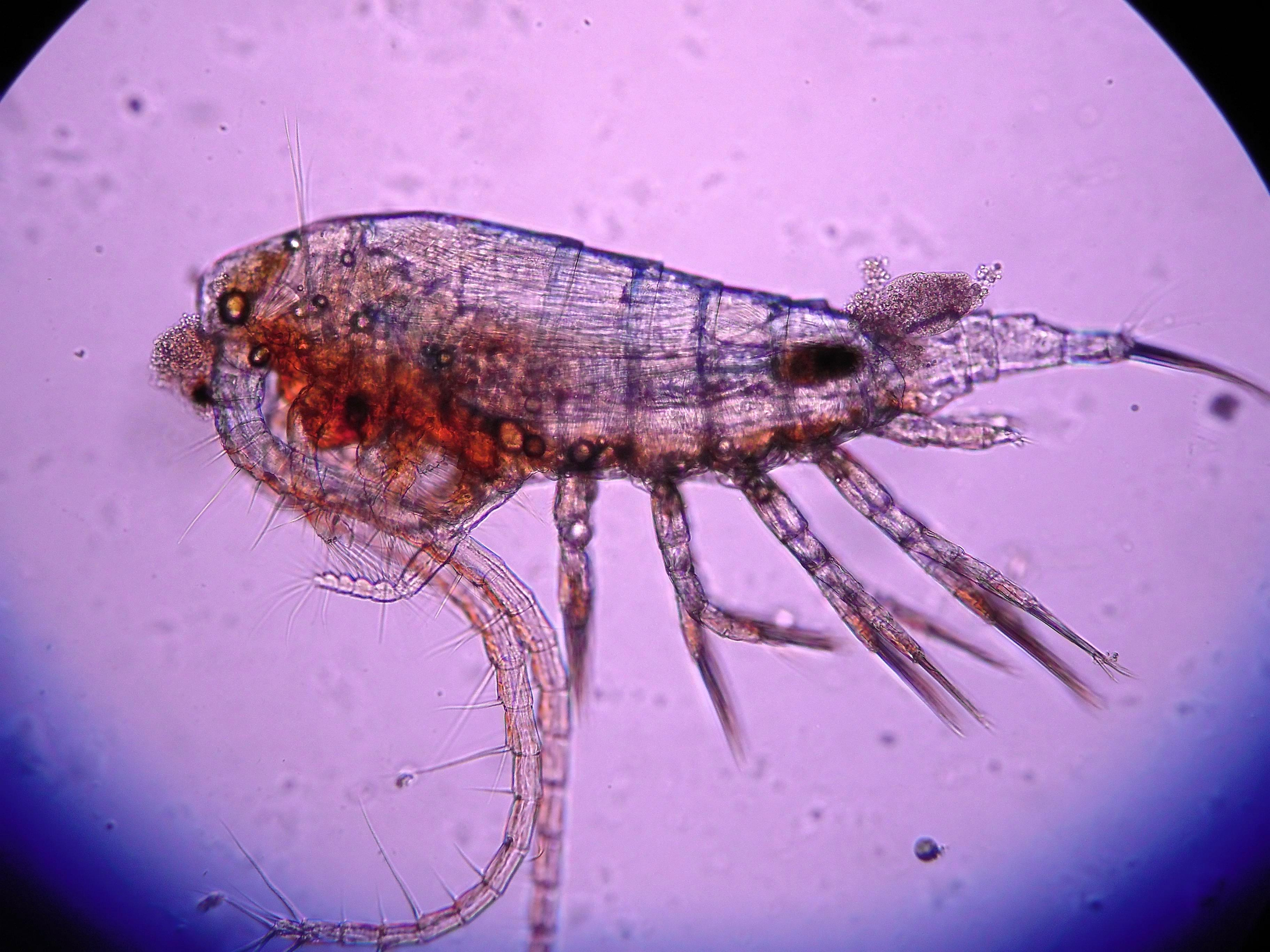 Lateral view of Eudiaptomus vulgaris (Calanoida)